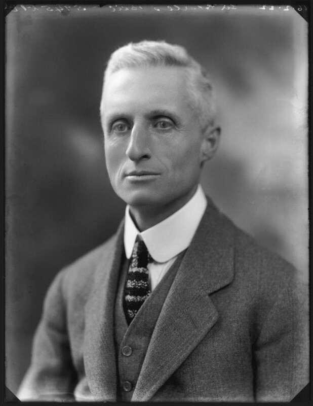 Sir Charles Alfred Bell, KCIE CMG (October 31, 1870 – March 8, 1945) was the British Political Officer for Bhutan, Sikkim and Tibet.